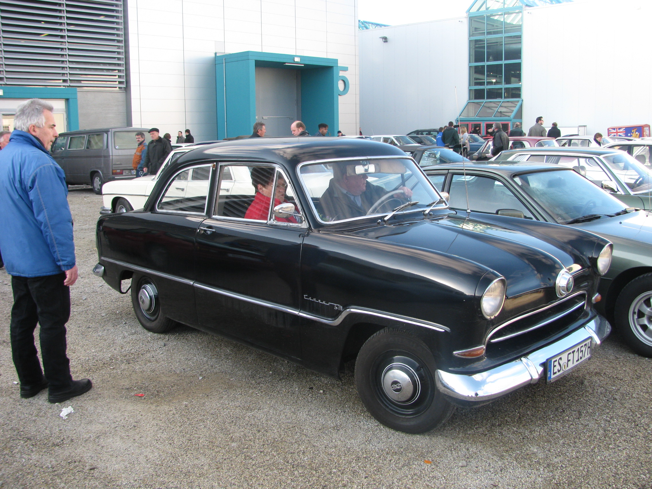 Ford Taunus 15M. Next to Augsburg fair hall during MotoTechnica 2012.